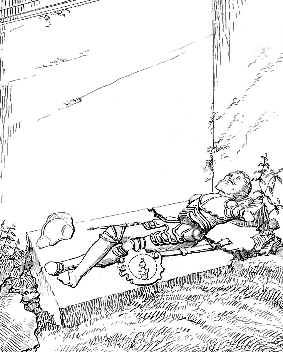 The tombstone is presently located inside the Evangelical Church. [1]